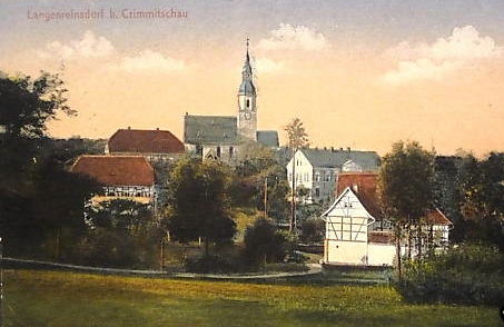 This is an old picture postcard of Langenreinsdorf in Saxony (Germany).